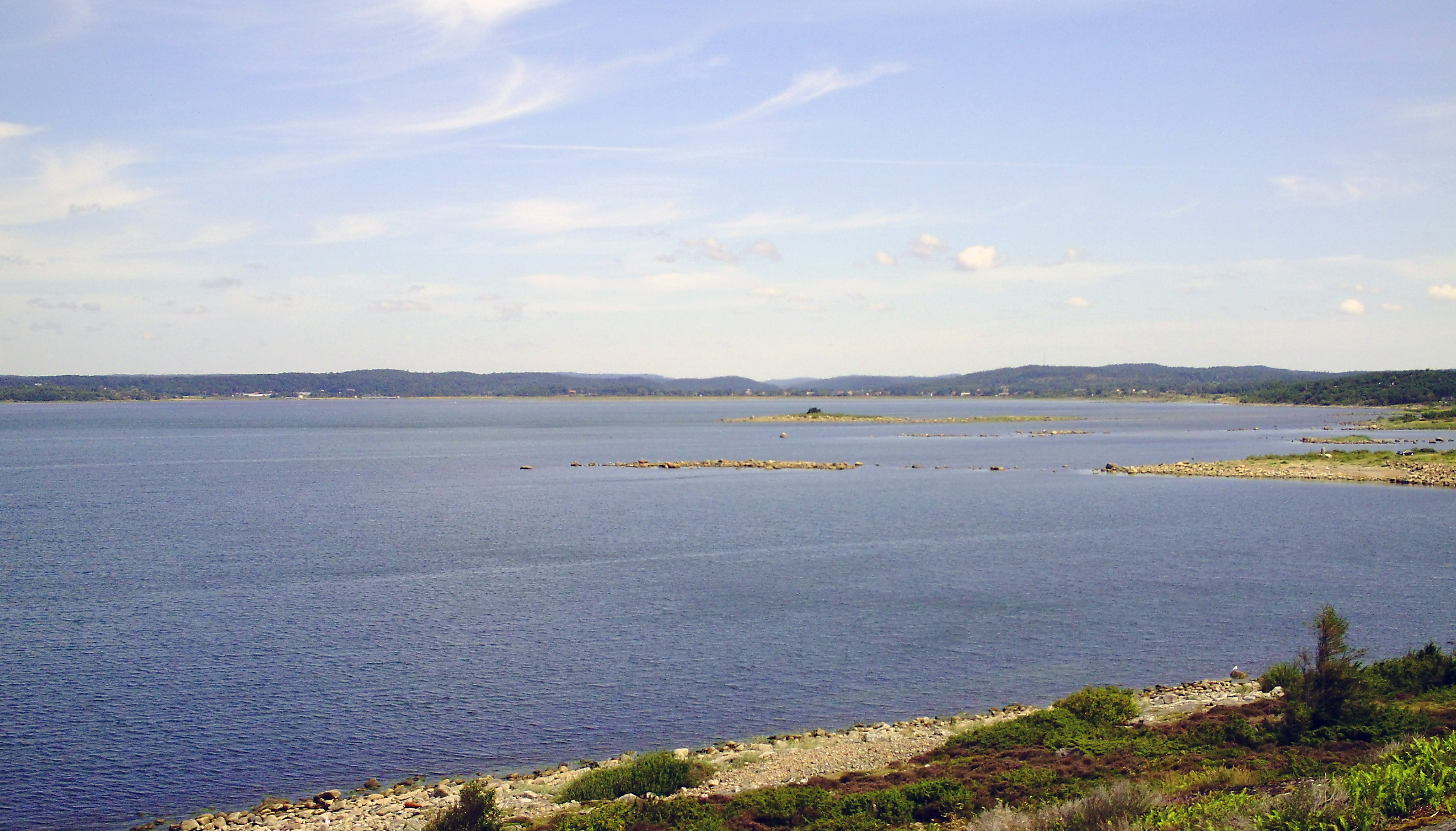 The fjord Klosterfjorden, as seen from the mountain Lerhuvudet on Årnäshalvön, Halland, Sweden.